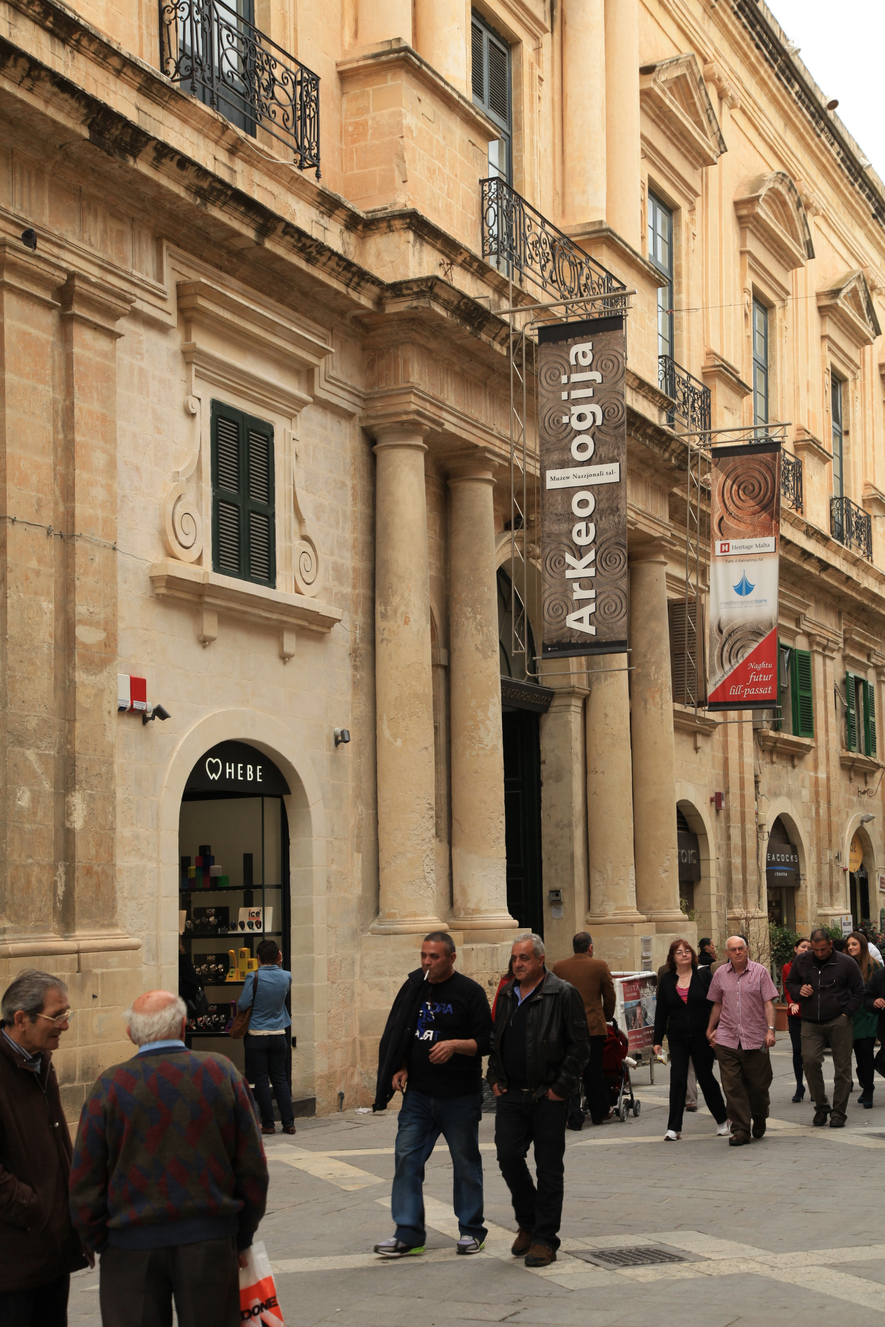 Auberge de Provence at Triq ir-Repubblika in Valletta, Malta